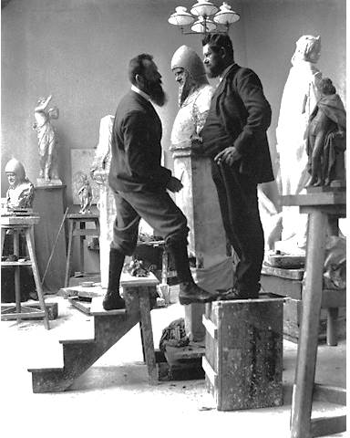 No title